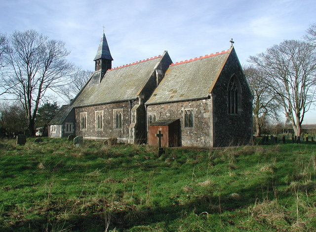 St. Lawrence's Church, Elstronwick, East Riding of Yorkshire, England.Built as a medieval chapel of ease at an unknown date before 1324 and dedicated to St. Lawrence by 1386, the church at Elstronwick was extensively rebuilt and remodelled in 1791 and again in 1874-75.